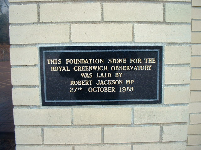 Greenwich House: foundation stone And by 1998 it was closed...